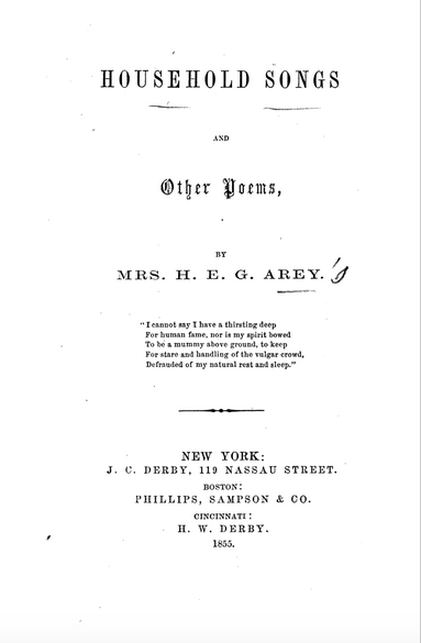 "Household Songs and Other Poems", by Harriett Ellen Grannis Arey